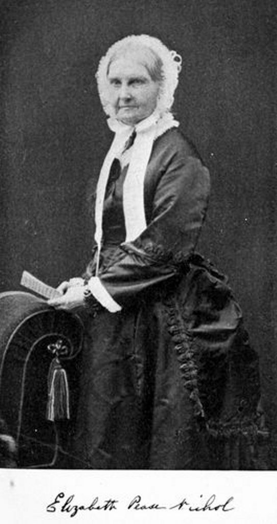 Image of Elizabeth Pease Nichol